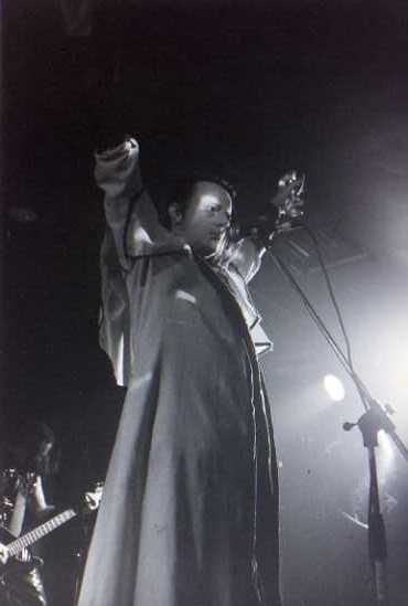 Nazxul in 1999, photo by Brian Fischer-Giffin